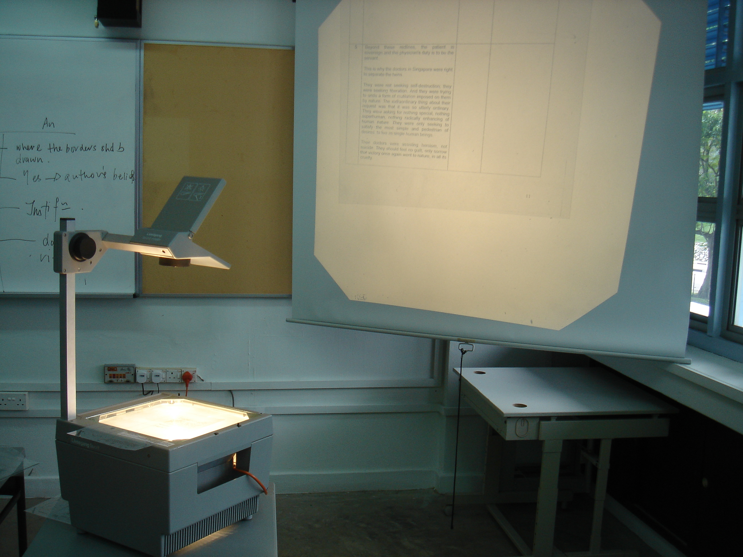 Overhead projector, used during lessons in a classroom. Typ: favorit master 625, made by Liesegang, Düsseldorf.